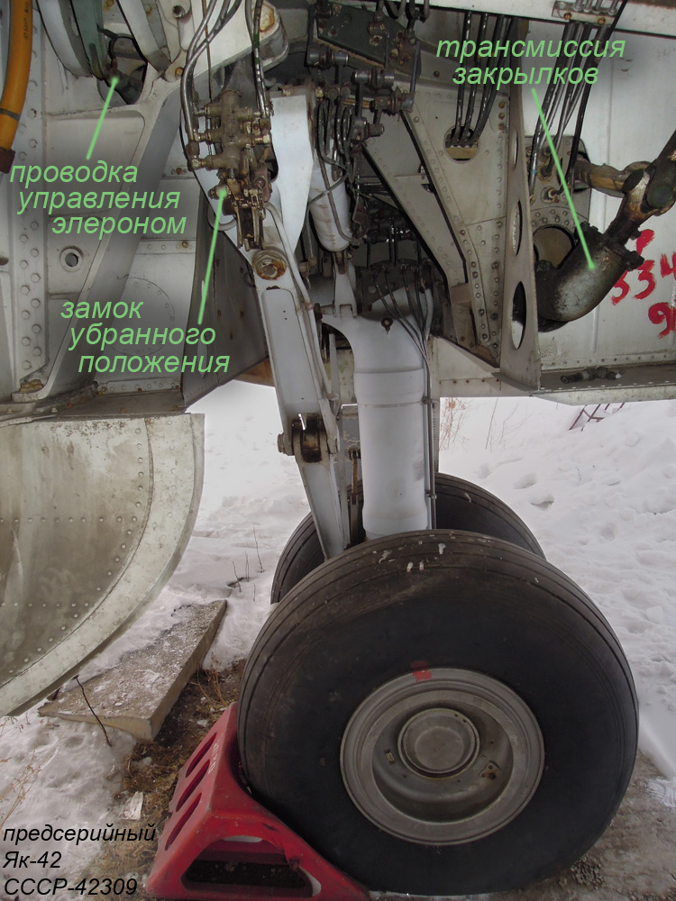 Проводка управления элероном — aileron control bar; Замок убранного положения — gear up lock; Трансмиссия закрылков — flaps transmission.